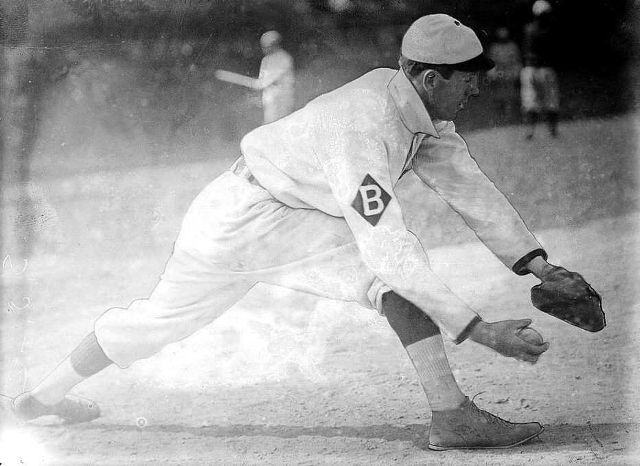 "George McConnell (baseball)" A 1913 image, from the Bain News Service, of George McConnell.